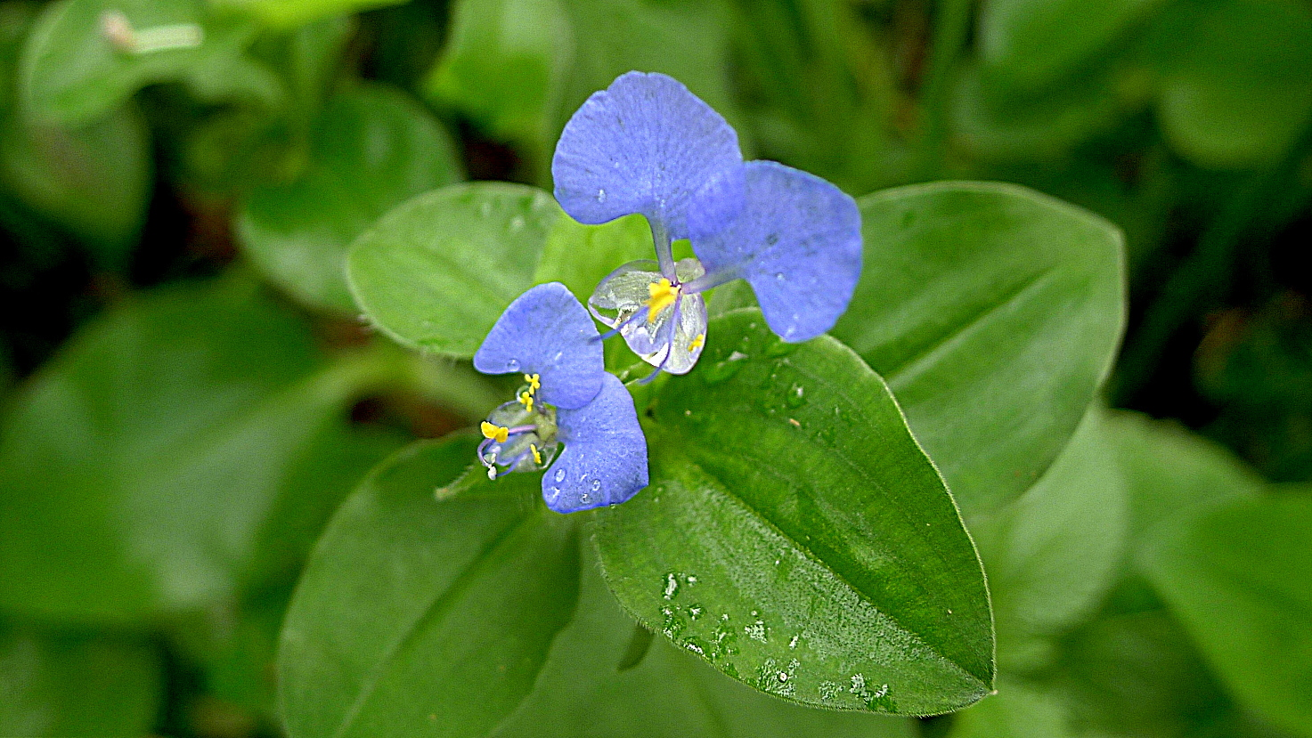 Commelina benghalensis L., Commelinaceae, Atlantic forest, northeastern Bahia, Brazil